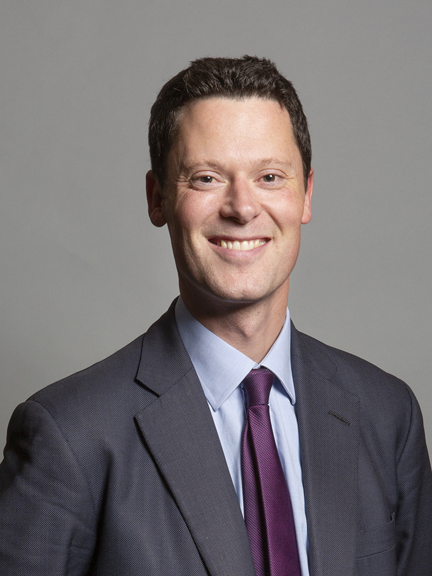 Official portrait of Alex Chalk MP 3×4 portrait of Alex Chalk